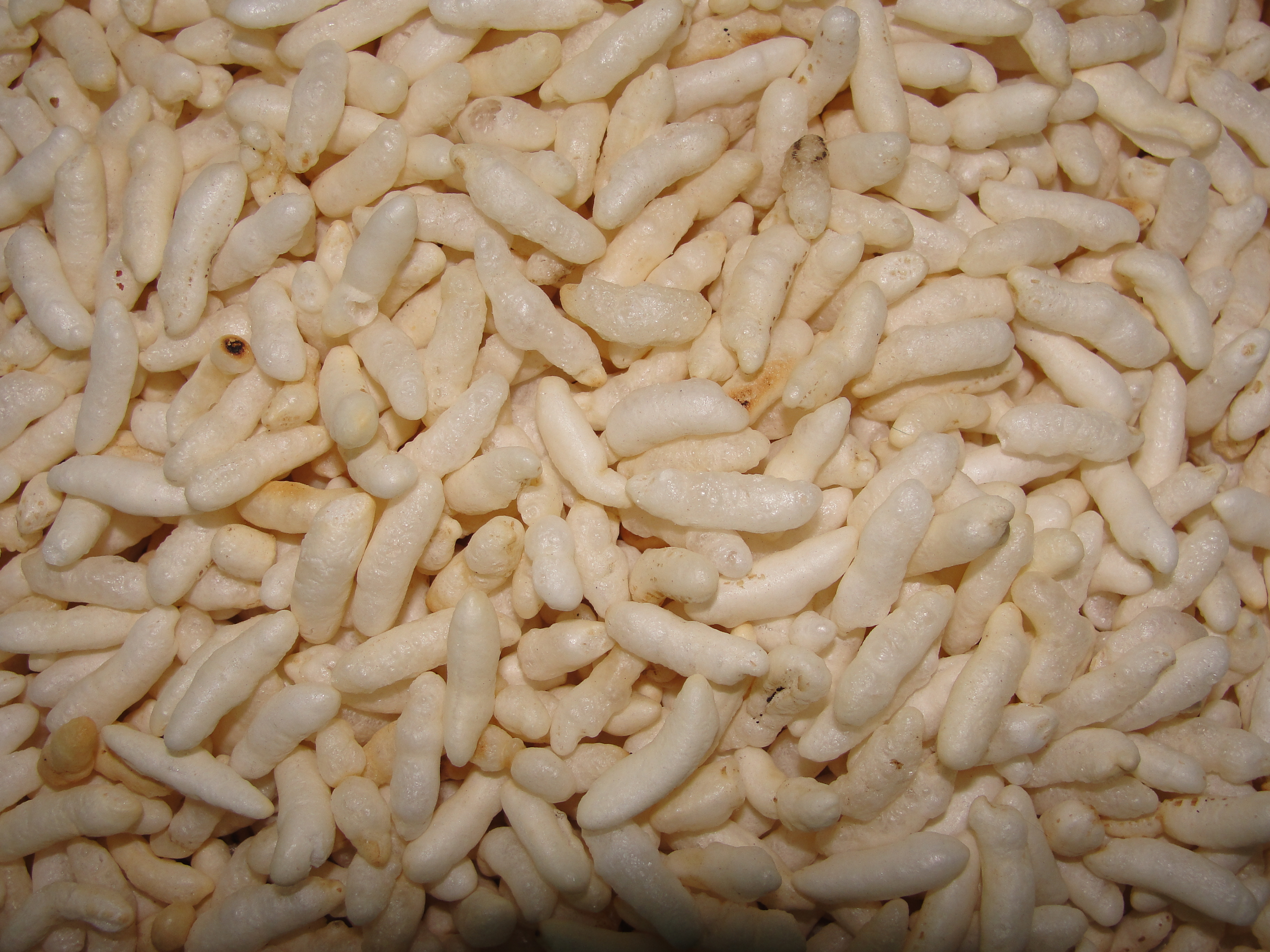 A closeup of puffed rice